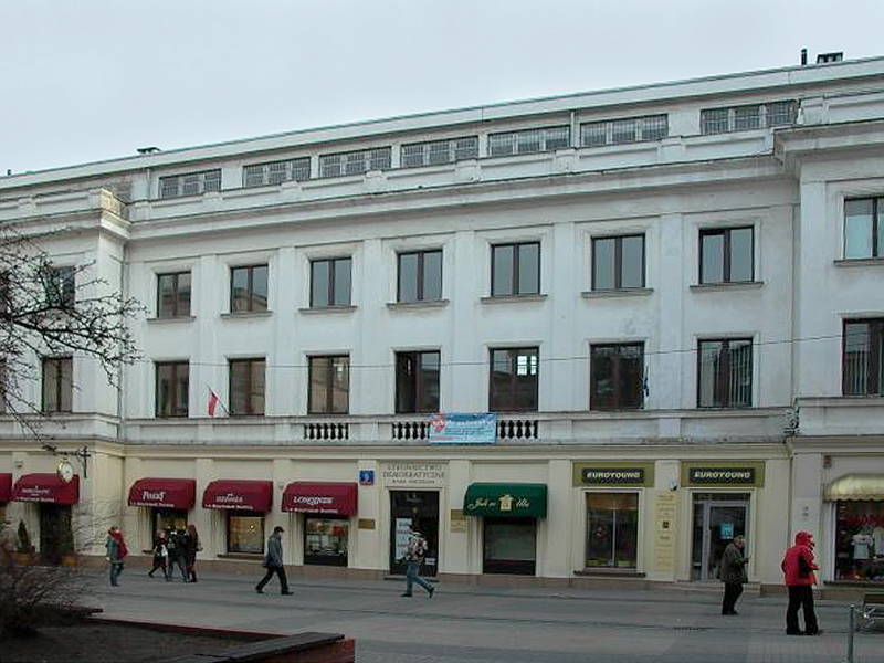 Stronnictwo Demokratyczne (Democratic Party) Building - Chmielna Street 9.